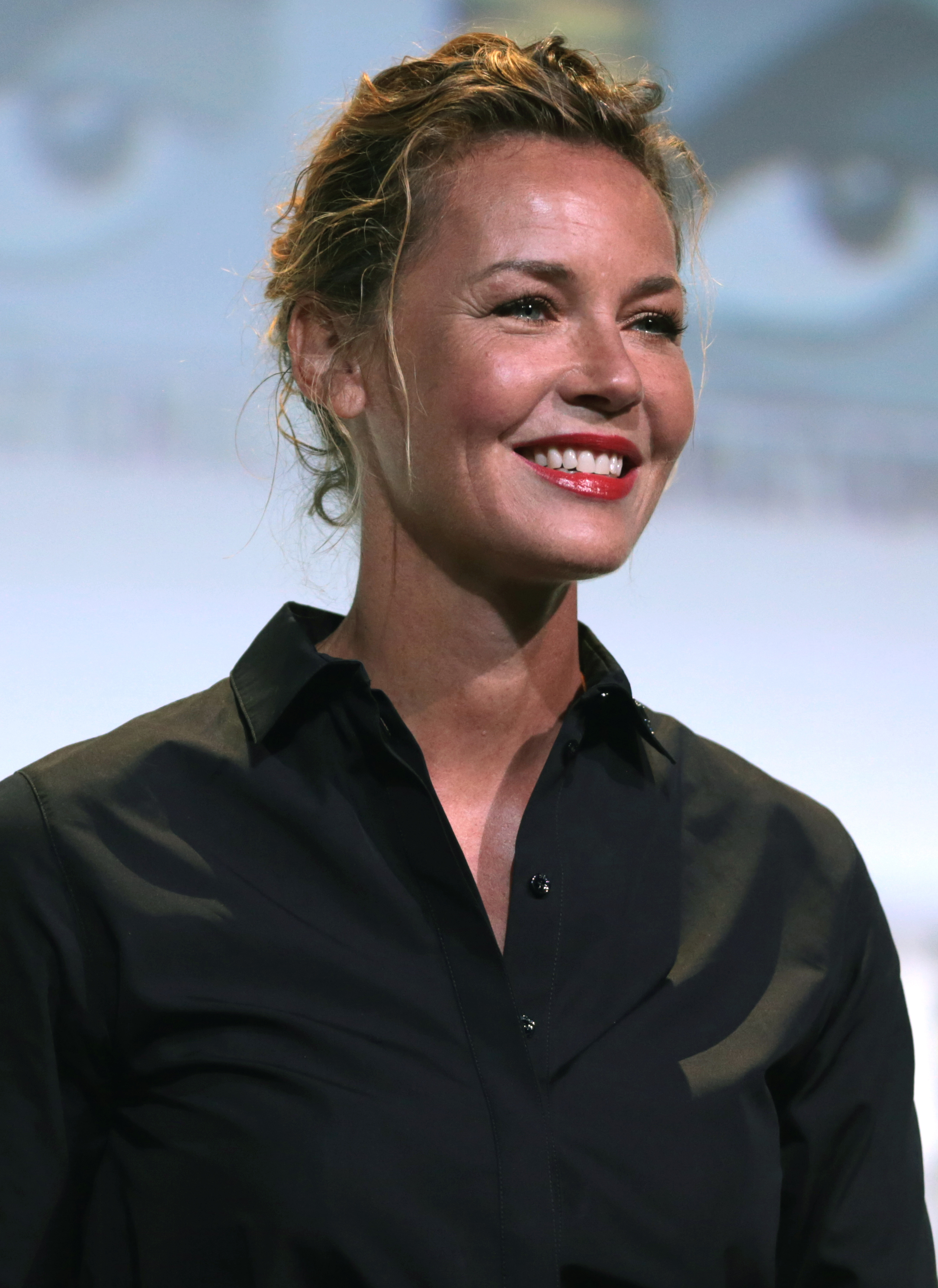 Connie Nielsen speaking at the 2016 San Diego Comic-Con International in San Diego, California.